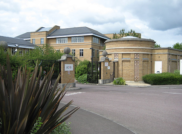 Entrance to UCAS The organisation which is responsible for managing more than 2 million applications to higher education courses in the UK. (Universities and Colleges Admissions Service).